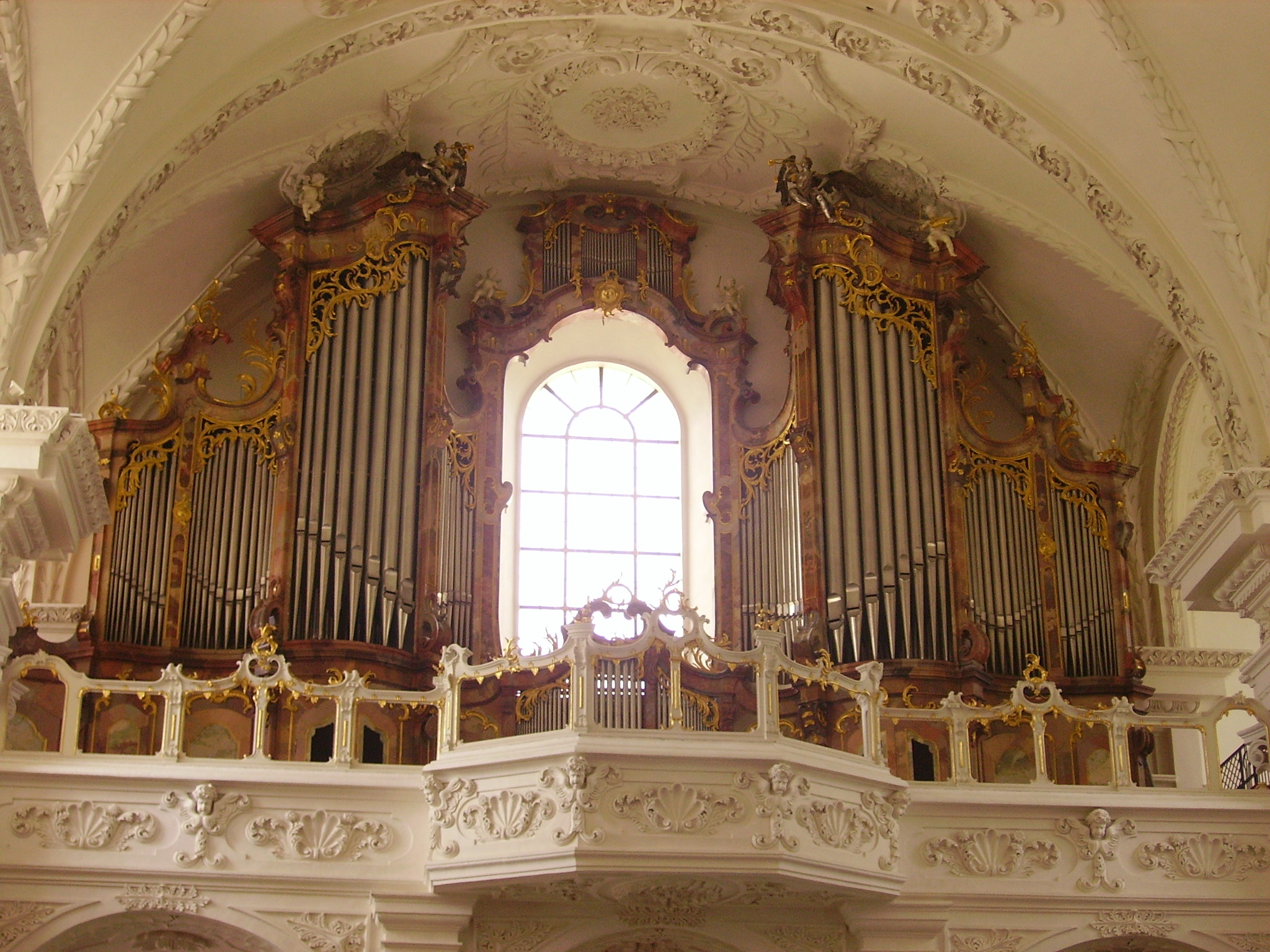 Organ of the Minster Sts. Peter & Paul, Obermarchtal, built by Johann Nepomuk Holzhey